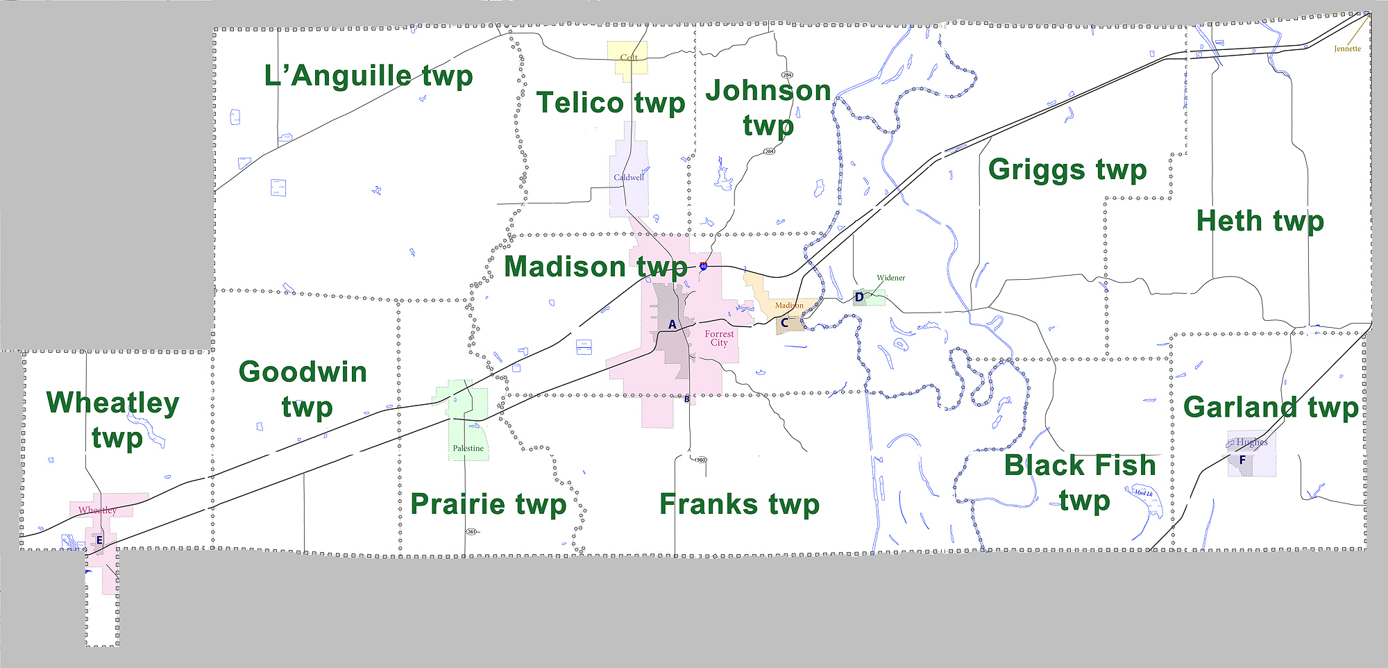 Large map showing townships in St. Francis County, Arkansas. Modified from US census map (for 2010 census) for St. Francis County, Arkansas